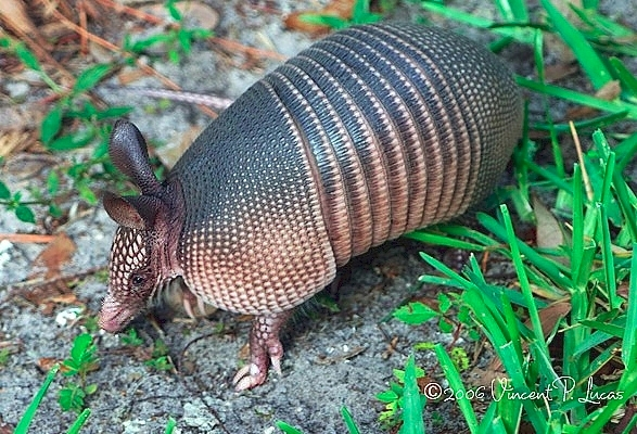 Nine-banded Armadillo (Dasypus novemcinctus -- Family: Dasypodidae) Naples, Collier Co., Florida 06/13/2006